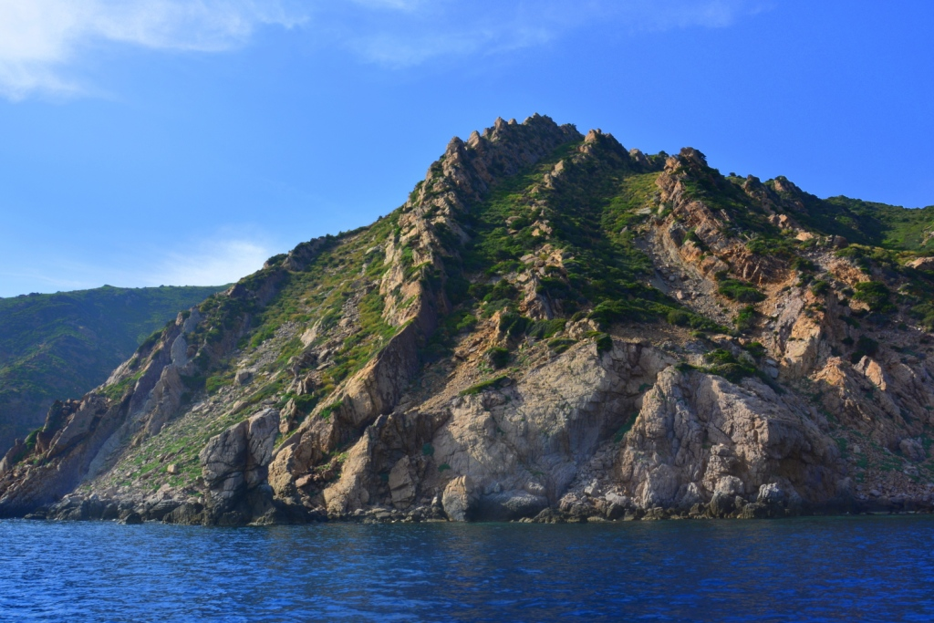 View on Zembra.